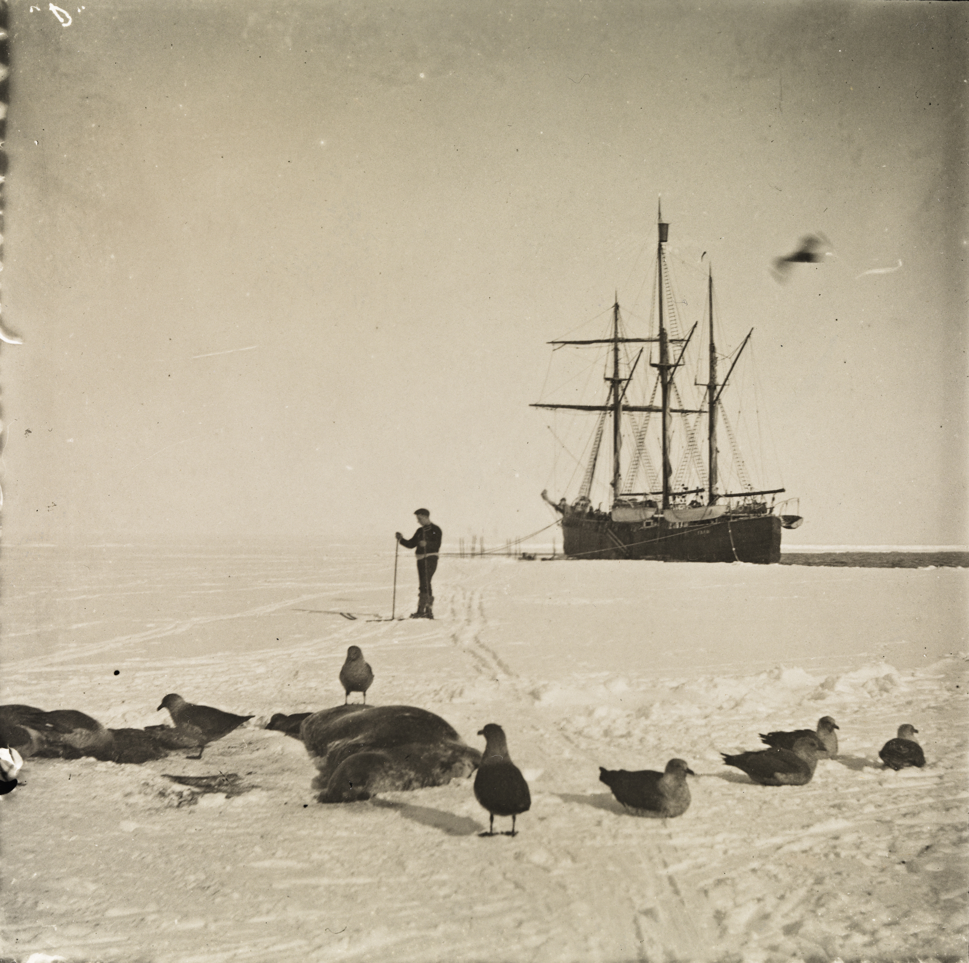 Beskrivelse / Description: I forgrunnen ligger en død sel. Jakten på sel var viktig fordi den ga ferskt kjøtt. Dato / Date: 1911/1912 Sted / Place: Antarktis, Hvalbukta Fotograf / Photographer: ukjent / unknown Digital kopi av original / Digital copy of original: s/h papirpositiv Eier / Owner Institution: Nasjonalbiblioteket / National Library of Norway Lenke / Link: Bildesignatur / Image Number: bldsa_NPRA2803